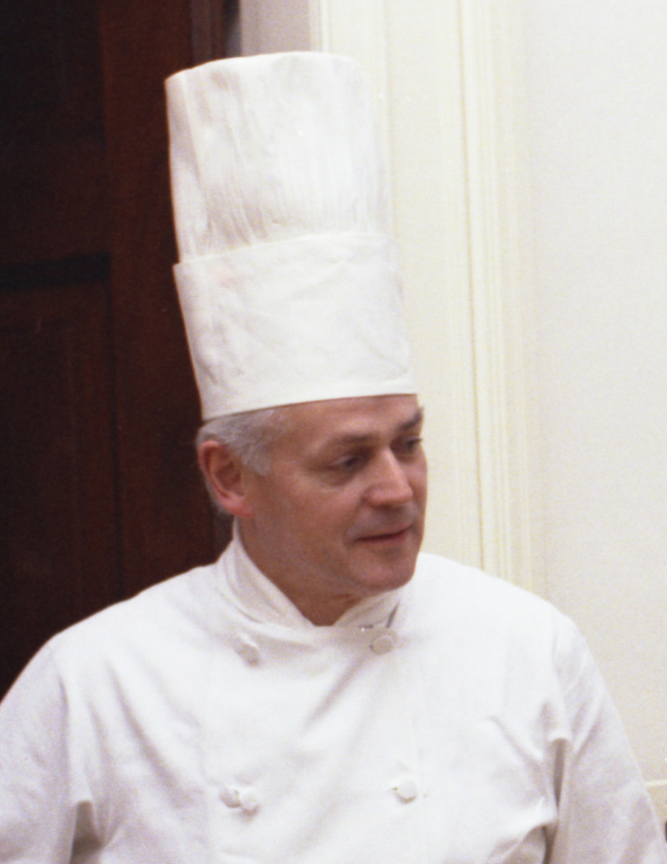 White House Executive Chef Henry Haller and First Lady Betty Ford discuss planning for White House dinners in the West Sitting Room on the Second Floor of the White House in Washington, D.C., on December 10, 1974.